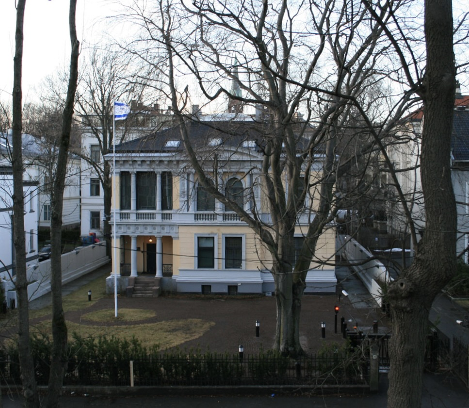 The Israeli embassy in Oslo as seen from the hill behind the Royal Castle.